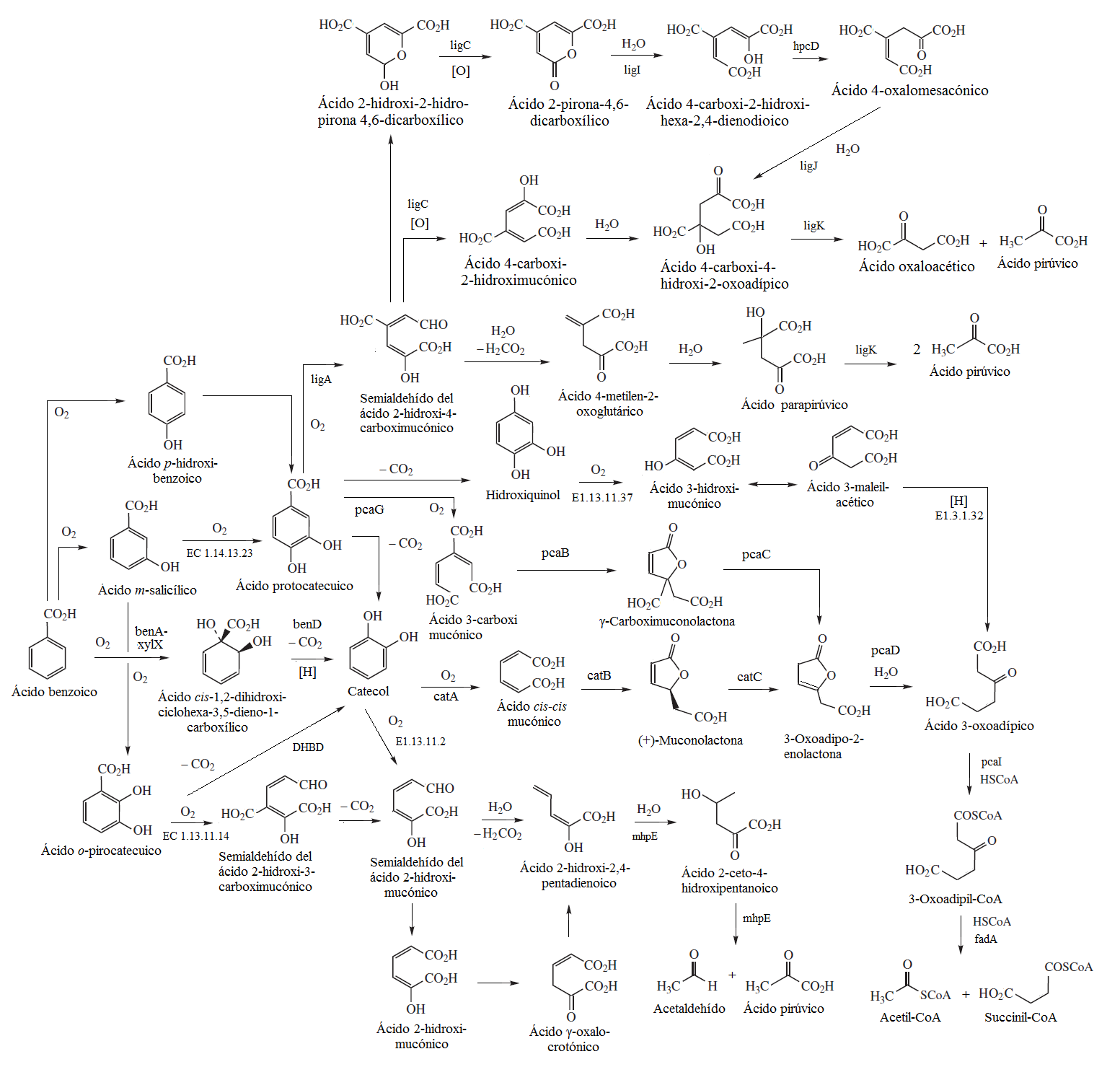 Benzoic acid degradation scheme